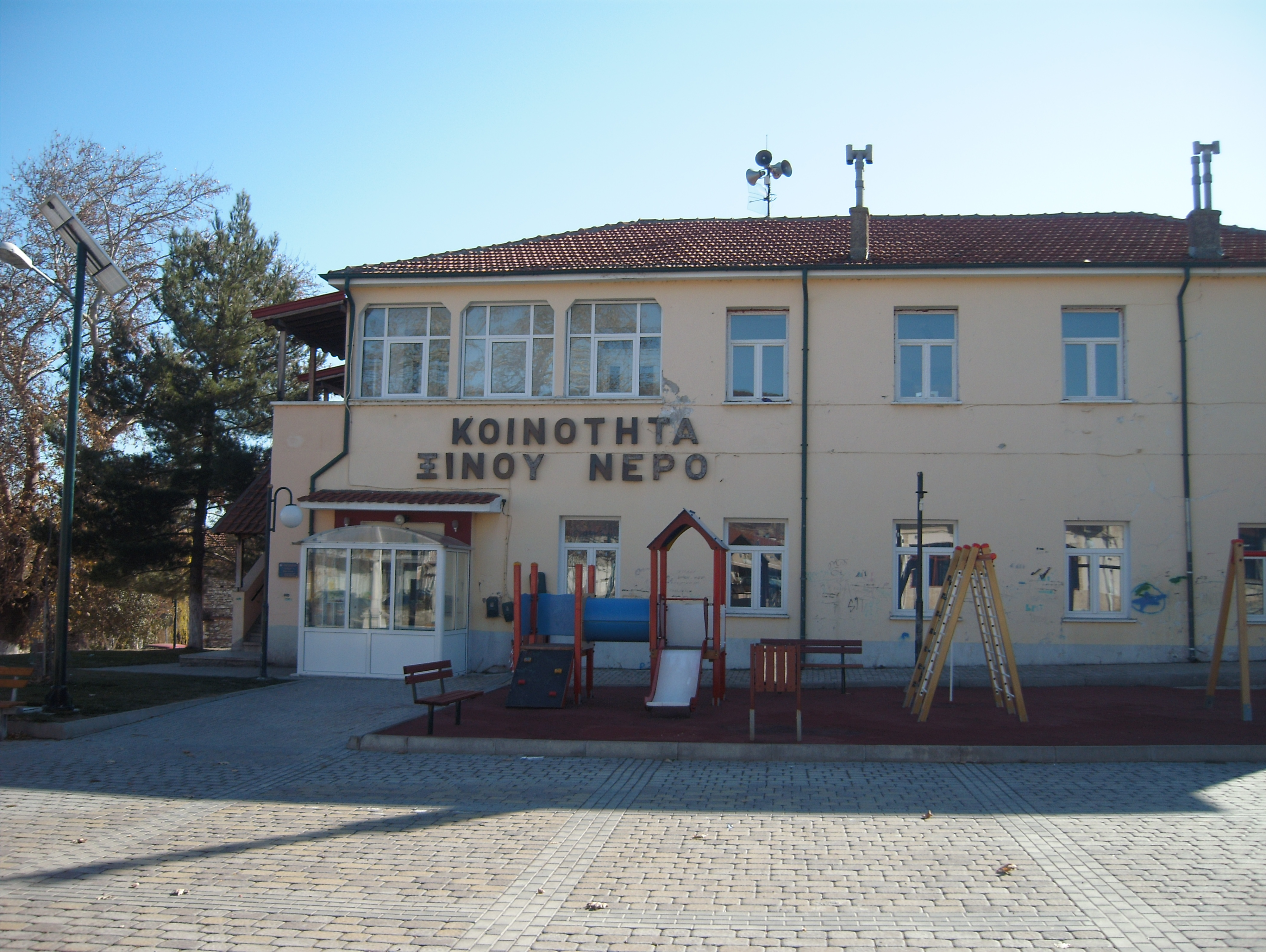 Gorno Varbeni / Xino Nero